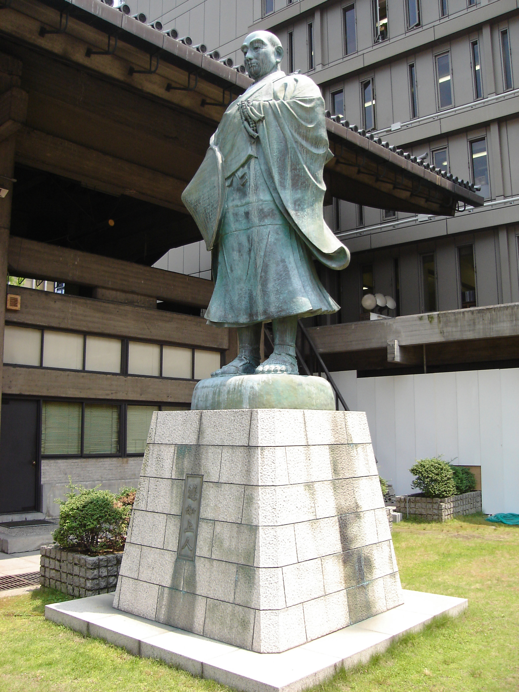 description:Statue of Rennyo at Kita-mido in Osaka. photographer: Joe Jones photographer location:Tokyo, Japan flickr_url: [1]